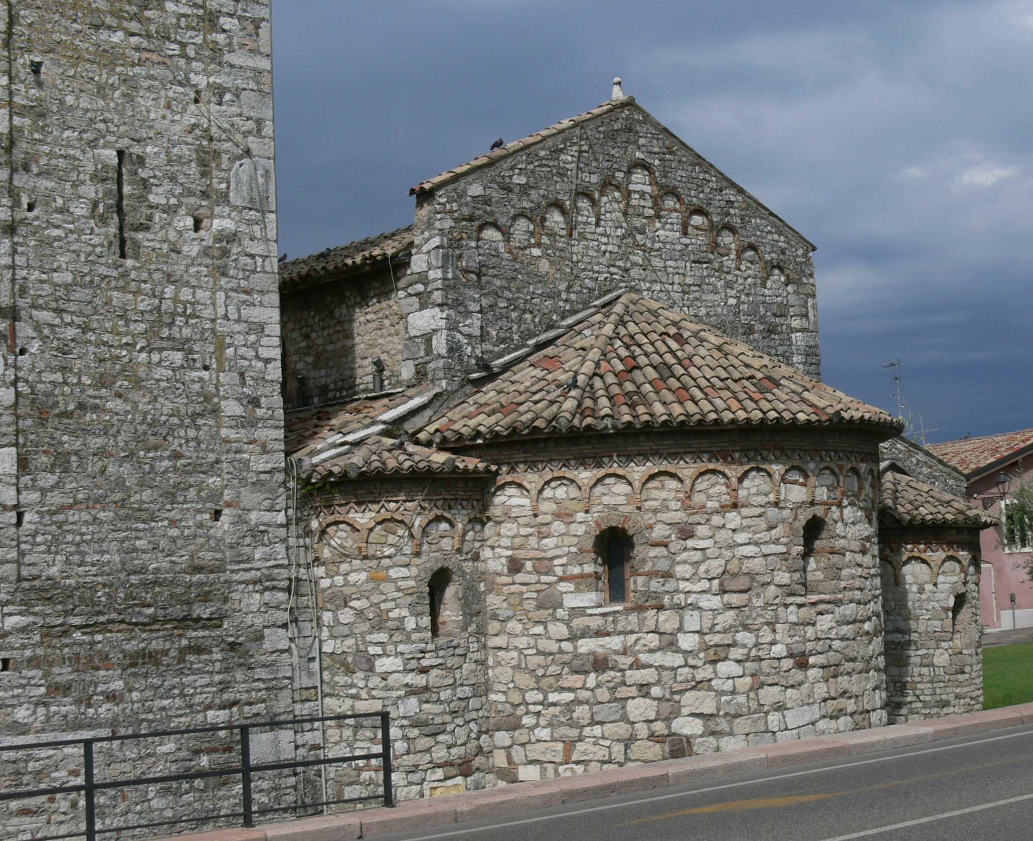 San Severo ( Bardolino ). Apse ( 12th century ).